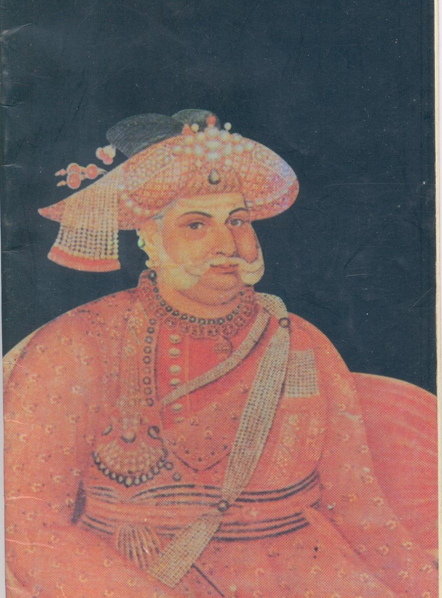 Portait of Serfoji II